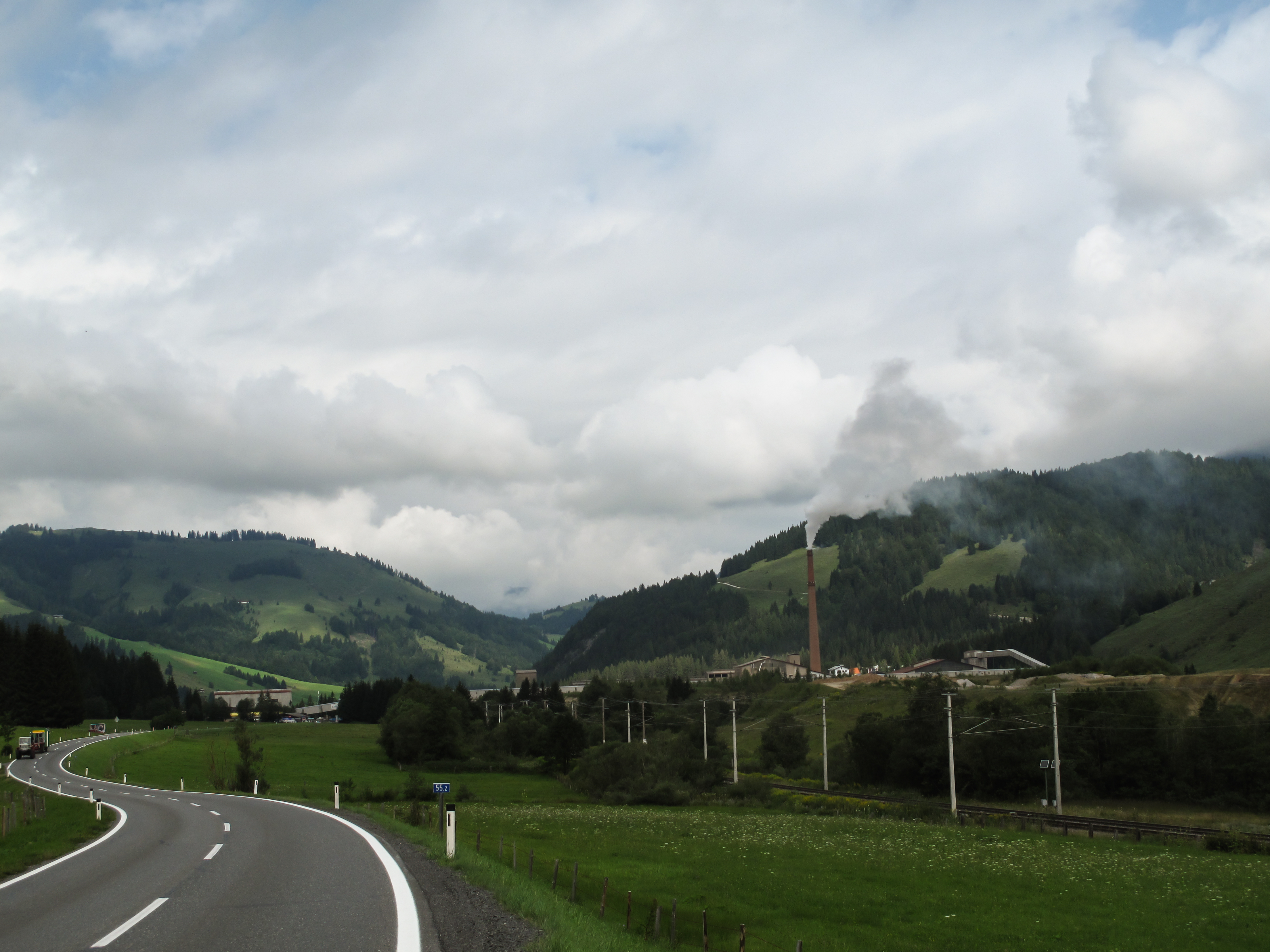 2012-08-08 10.49 Hochfilzen, road panorama with chimney